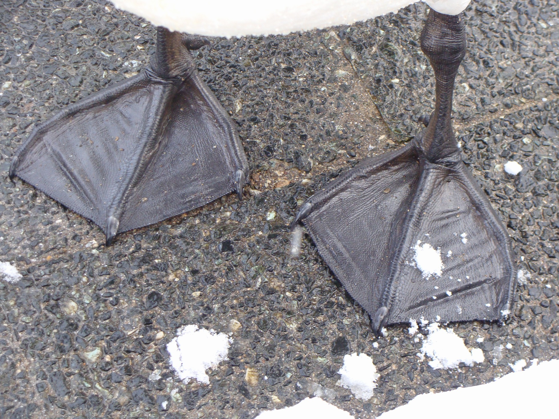 Whooper Swan's feets